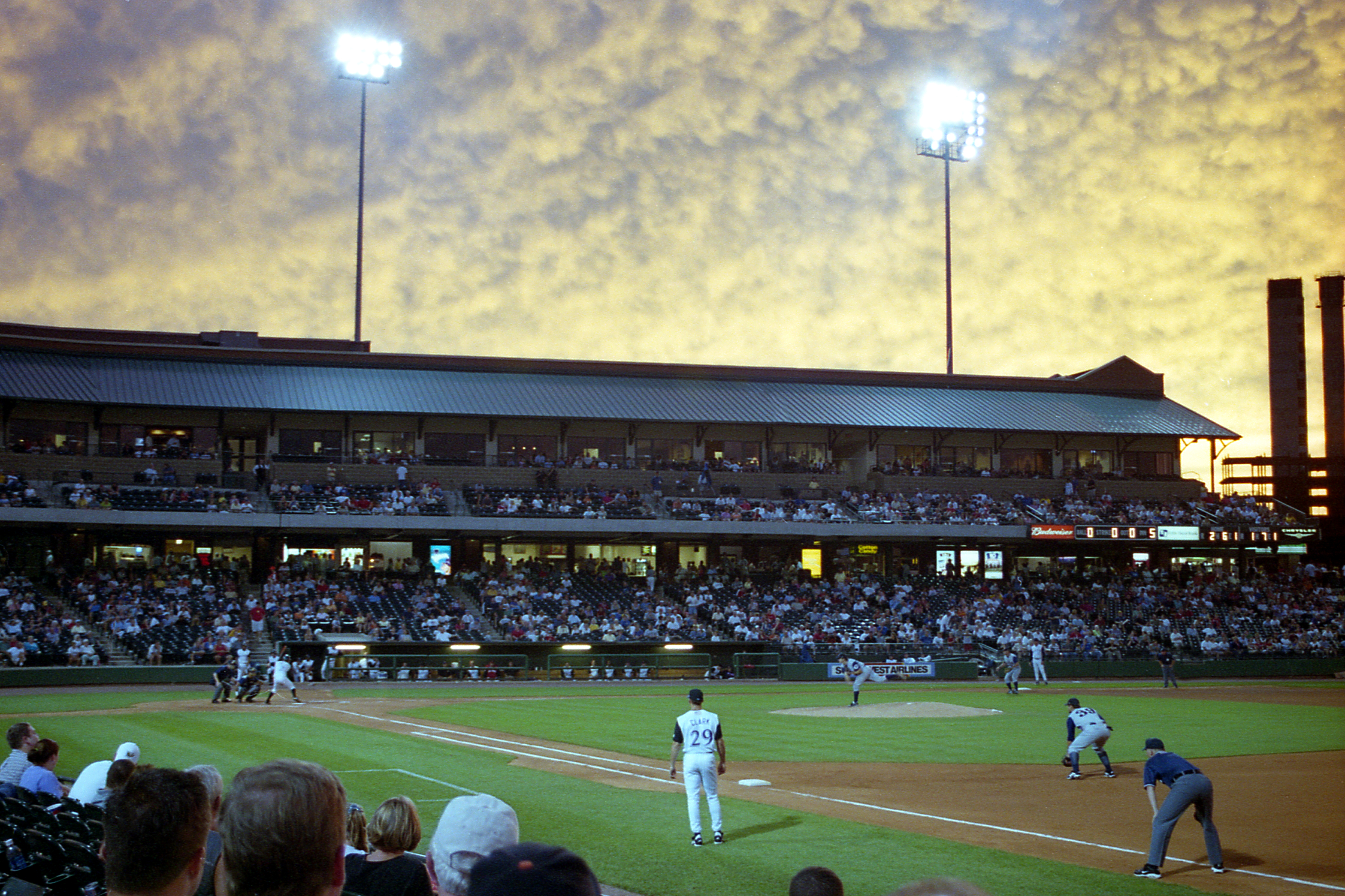 19:38, 27 August 2005 . . Rdikeman . . 700×467 (270,902 bytes) (Louisville Slugger Field, home of the Louisville Bats of the International League, 2002, by Rick Dikeman GFDL )